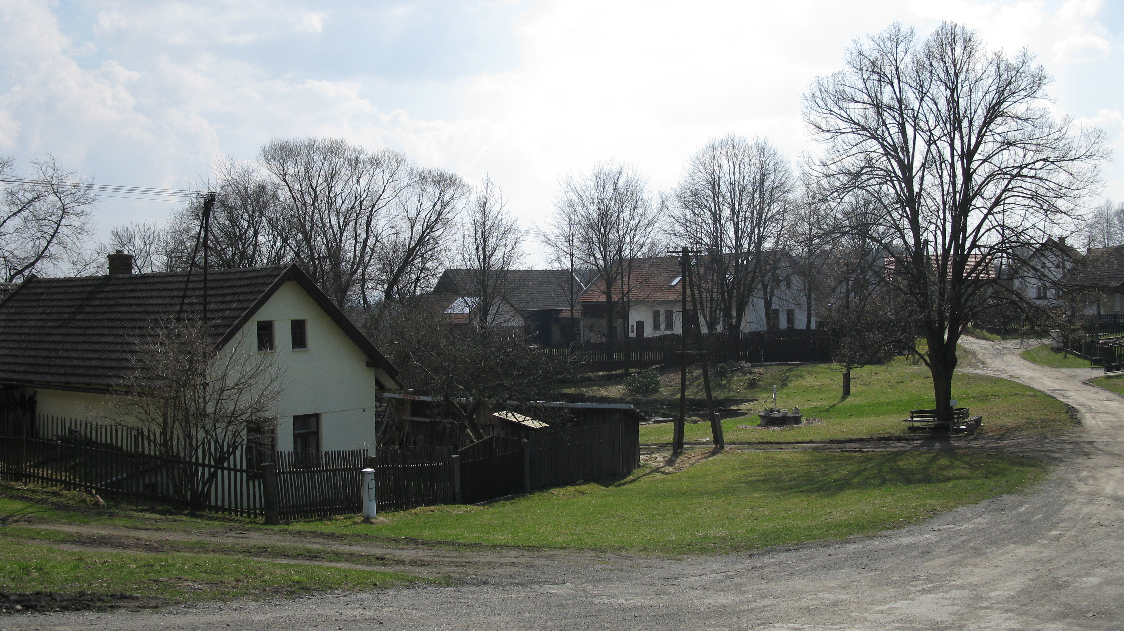 Trailers in Benetice village, Spring 2009